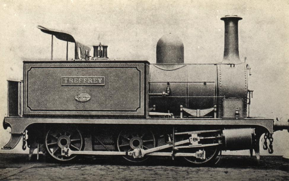 Cornwall Minerals Railway 0-6-0T Treffrey (incorrectly spelt - it should be "Treffry"). As built by Sharp, Stewart and Company, 1874.